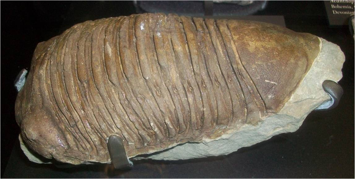 Fossil of Homalonotus dekayi at the Amherst Museum of Natural History.